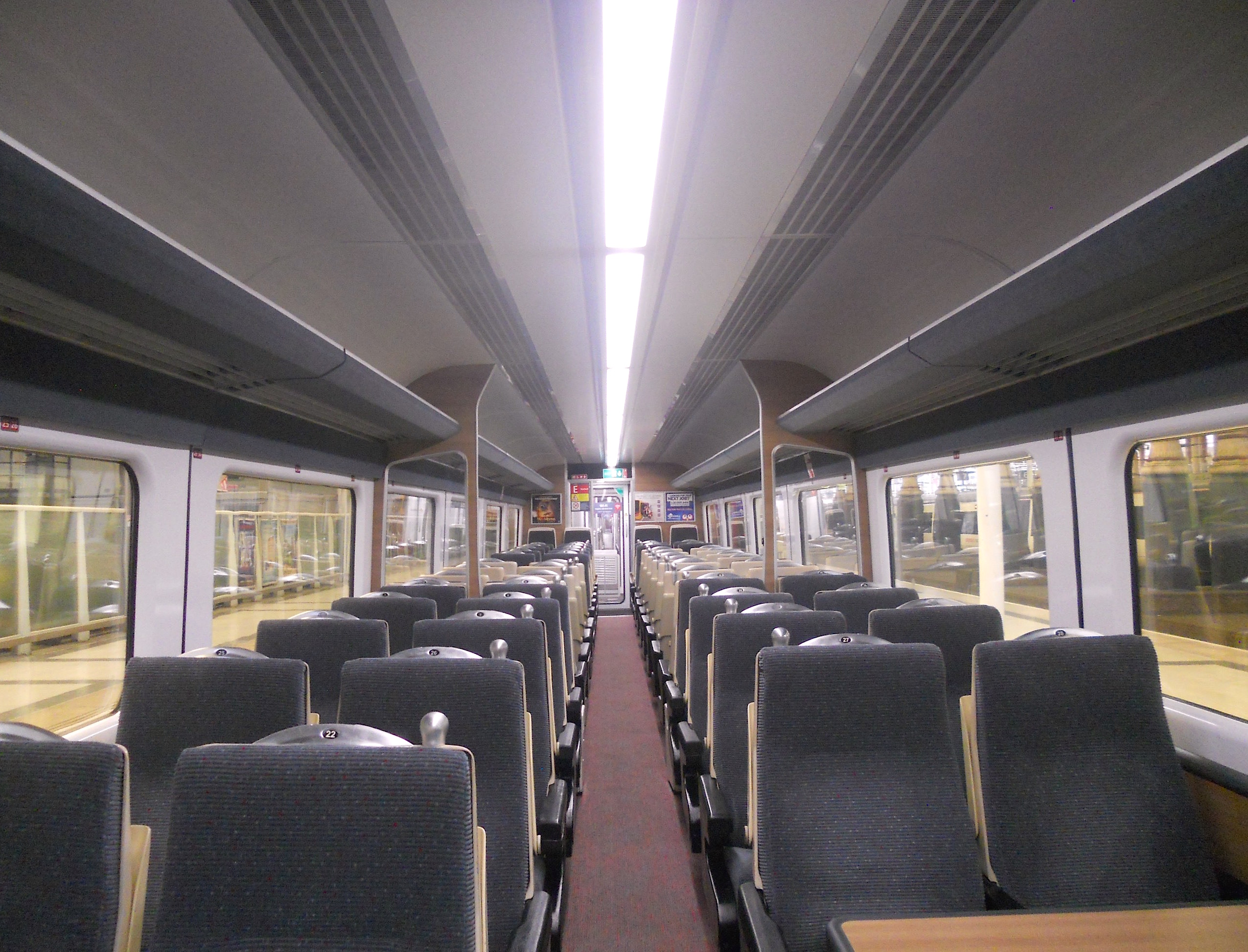 The interior of a Greater Anglia refurbished Mark 3A Standard Open